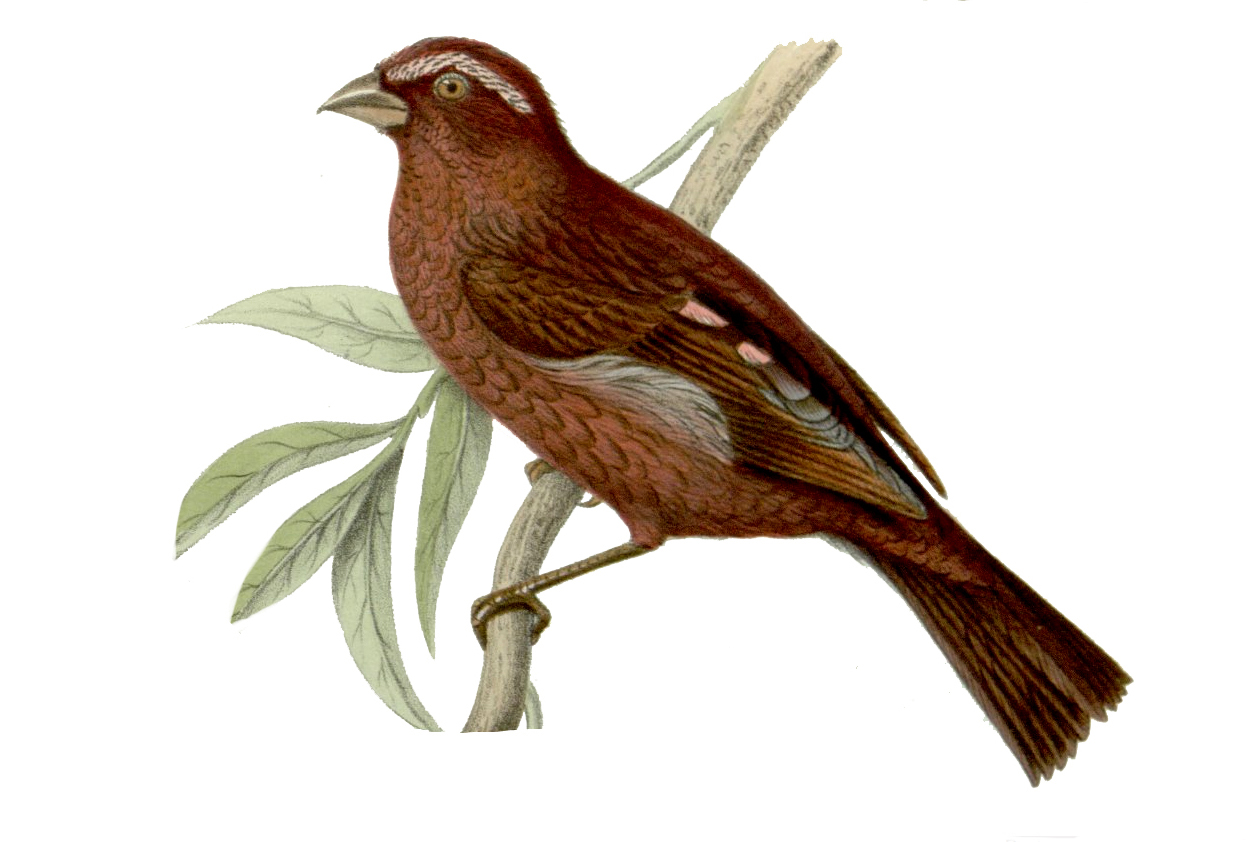 Carpodacus vinaceus male